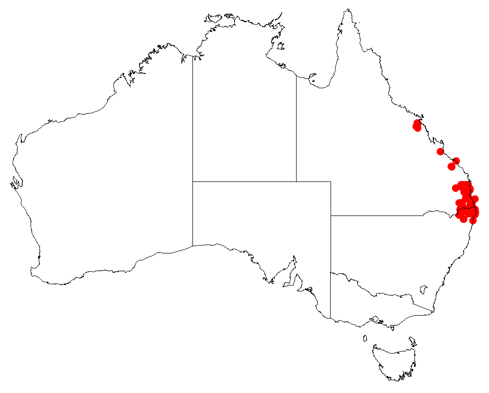 Parsonsia ventricosa Occurrence data for Australia from Australasian Virtual Herbarium downloaded 22 December 2018